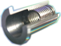 Rivet nut/Knock-in nut/Drive-in nut/Hammer-in nut.